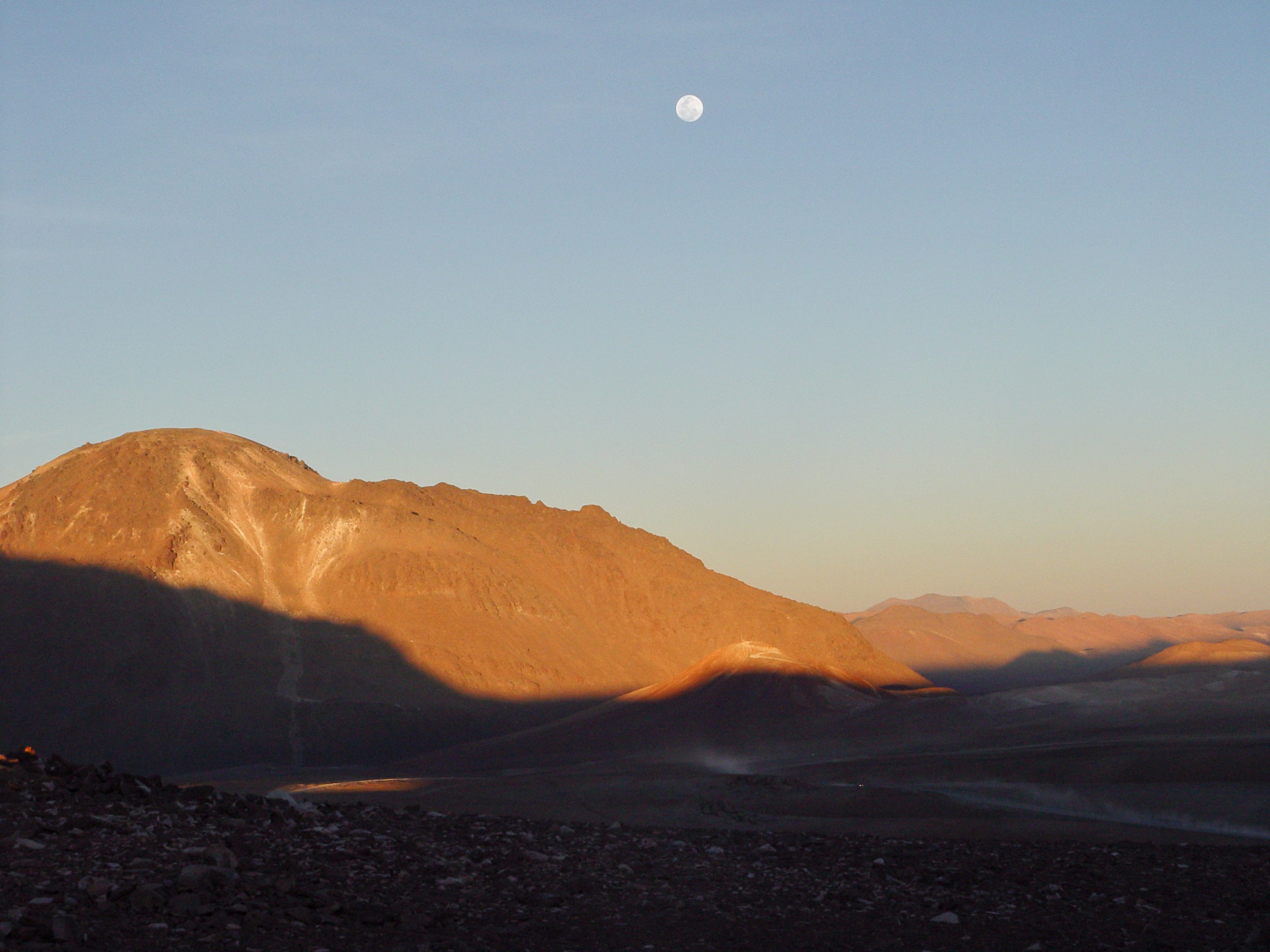 The moon high above Cerro Chascon at sunset.